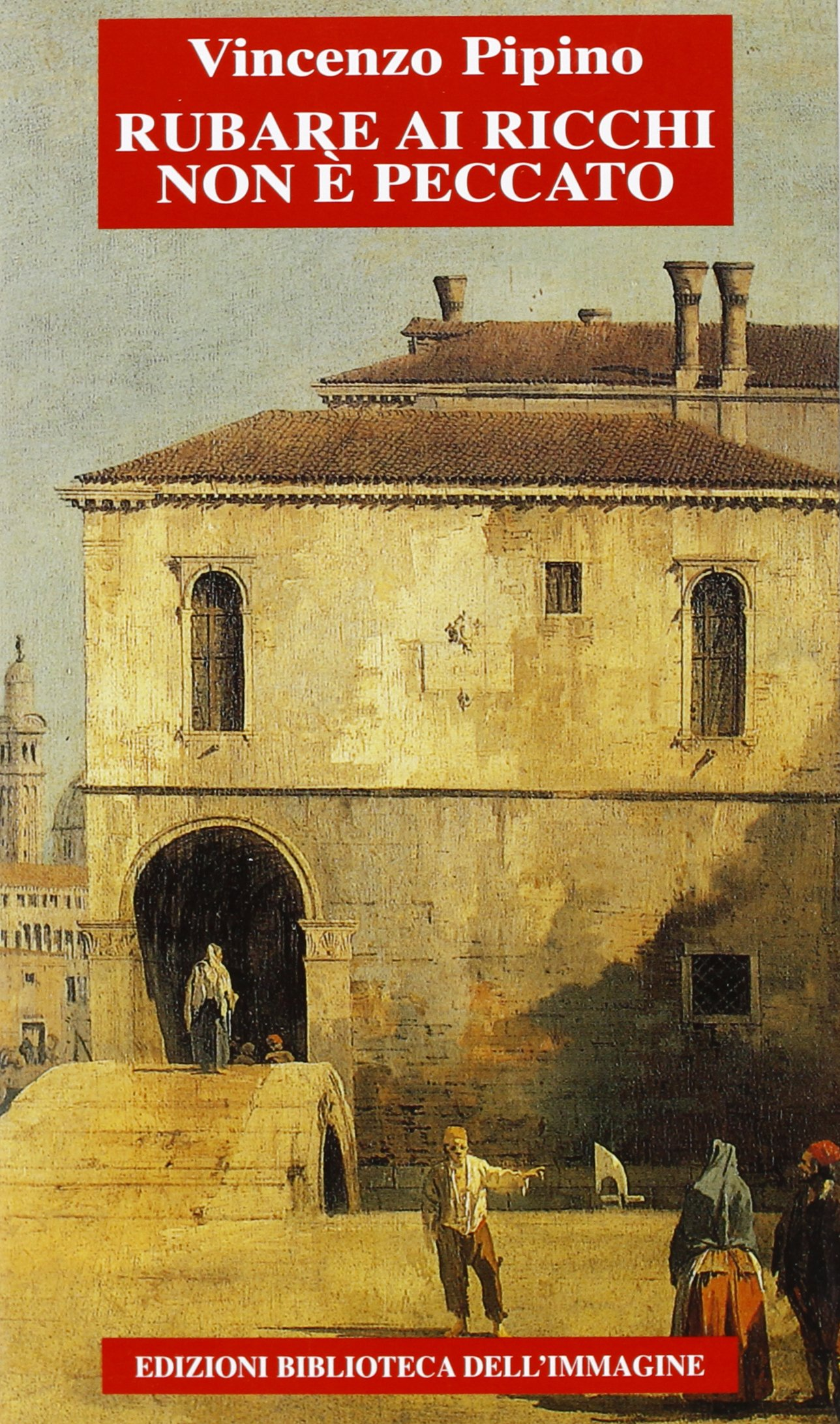 Cover of book Rubare ai ricchi non è peccato written by Vincenzo Pipino, published in 2010. The image used on the cover is the public domain work of art by Canaletto from 1730 titled Fonteghetto della farina. (See File:Fonteghetto della farina, Canaletto, circa 1730.jpg). It was one of the works of art stolen (and returned) by the author of the depicted book.